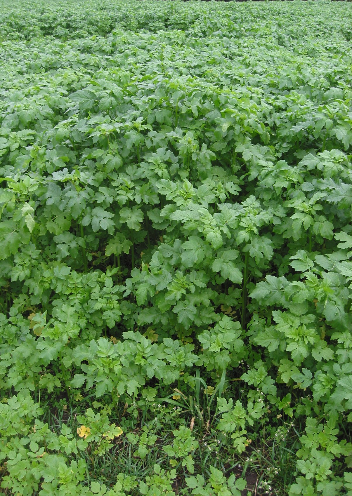 Sinapis alba green manuring